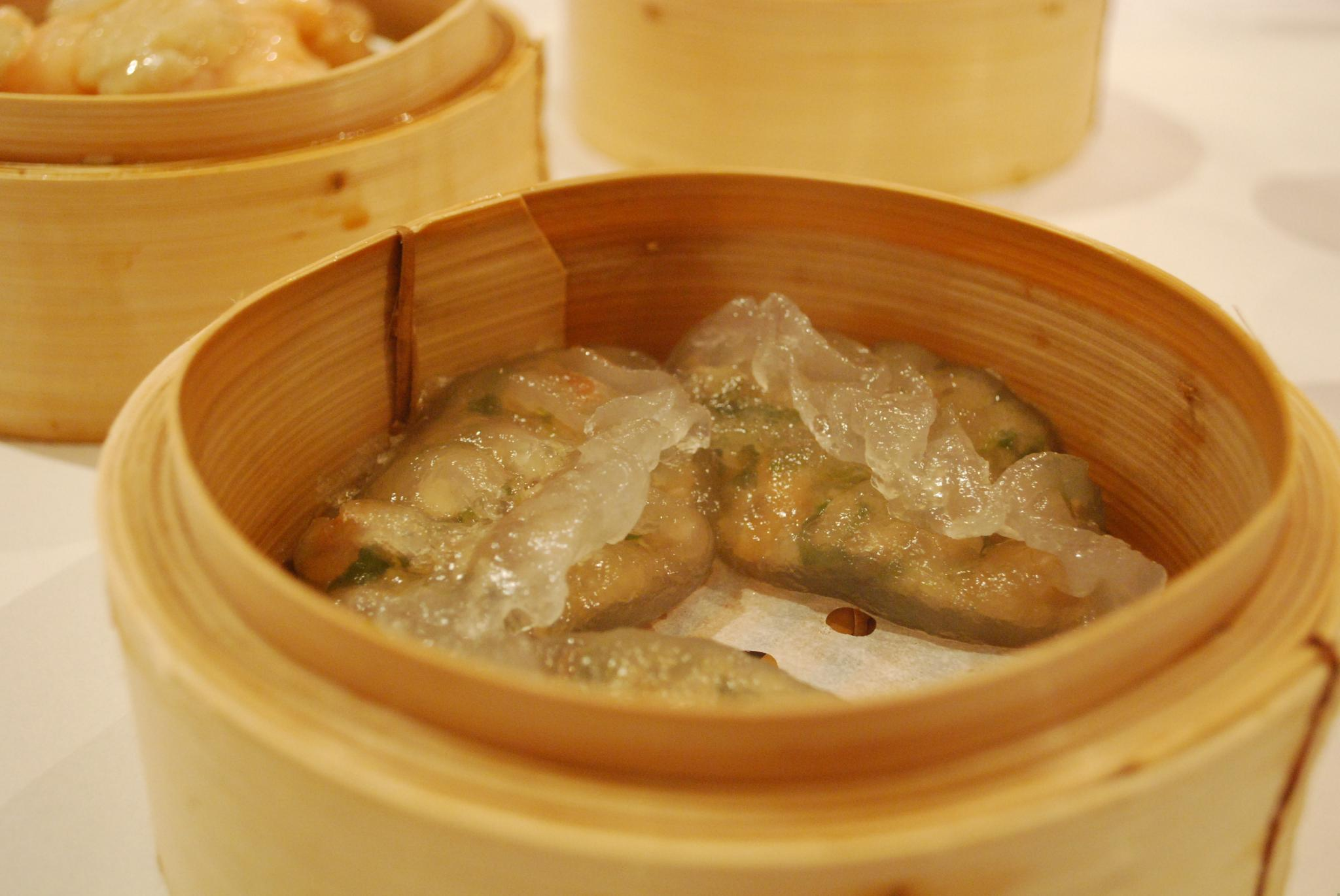 Dodgiest yumcha ever! So much for Hongkong-style dimsum. Our first item was a spongey 带子豆腐 scallop with beancurd, as if it was refrozen. That was followed by an ok 鲜腐竹卷 beancurd rolls, followed by a sticky gooey 朝州粉果 Teochew dumplings. Then another dodgy 咖喱鱿鱼 squid in curry sauce that was mushy, and some ok 叉烧包 BBQ Pork Buns. The 蛋嗒 egg tarts were stone cold. The cold dishes were spicy hot, or at least the 凉拌三丝 Sichuan Salad was, despite the waitress assuring us it was not. The 泡菜 pickled Chinese Cabbage was so salty it made our eyes water! All the spongey, gooey, mushiness was probably and indicator of food being overcooked. Possibly leftovers that went back into the fridge or freezer and re-steamed the next day! At least none of us got the runs! :P We finished with a super-sweet 豆腐花 Sweet Beancurd and some 红豆杯仔糕 Red Bean Rice Cakes that were floury and tasteless. Maybe I'll go back for some more tastebud torture. Or maybe I won't. 巴渝人家 重庆火锅 Ba Yu Ren Jia Chongqing Hotpot 03.9802.6388 Shop 18, Village Walk Glen Waverley 3150